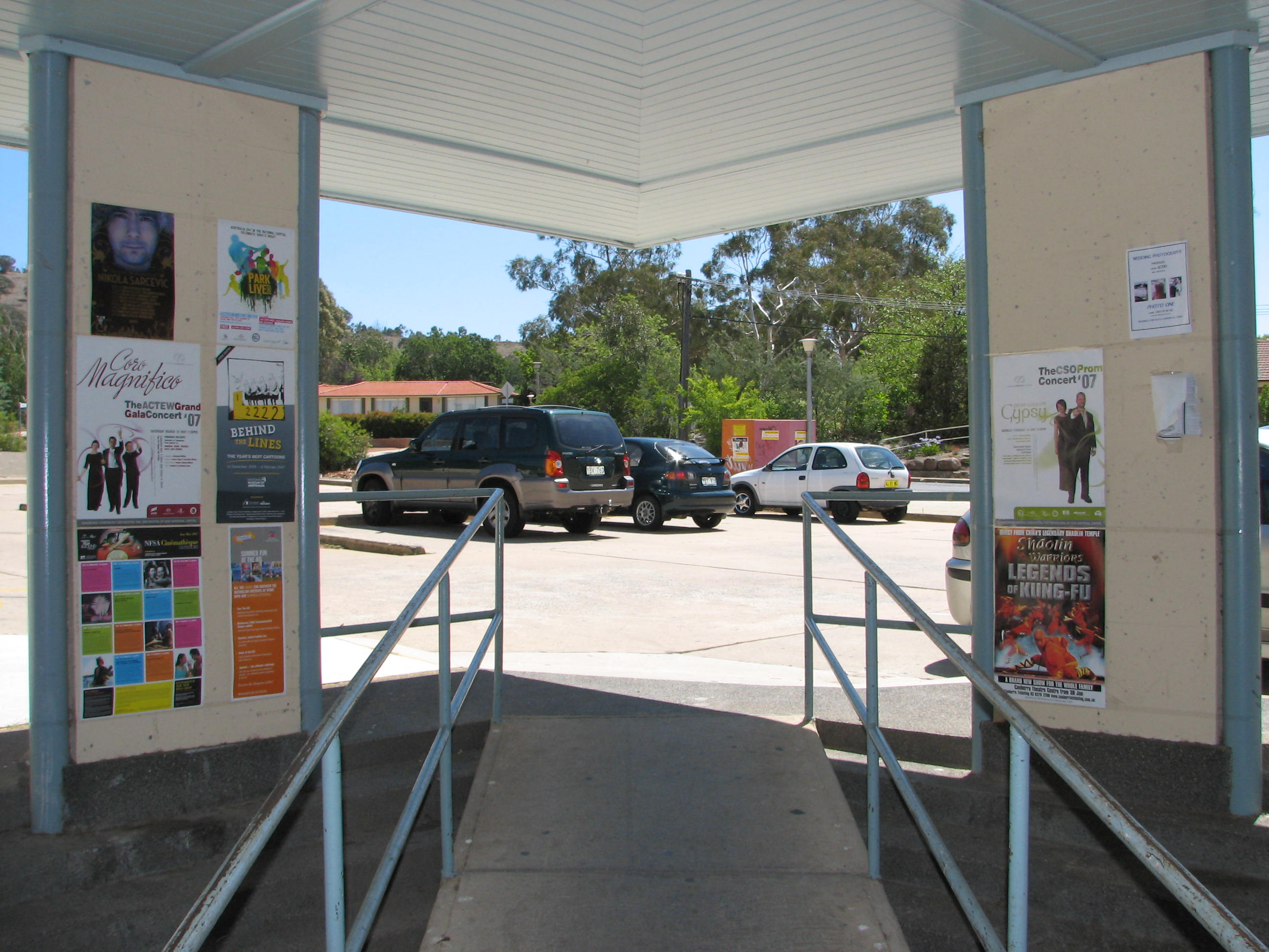 Noticeboard at local shops in Pearce, Australian Capital Territory. Taken by me - Tim Malone - on 20th January 2007.